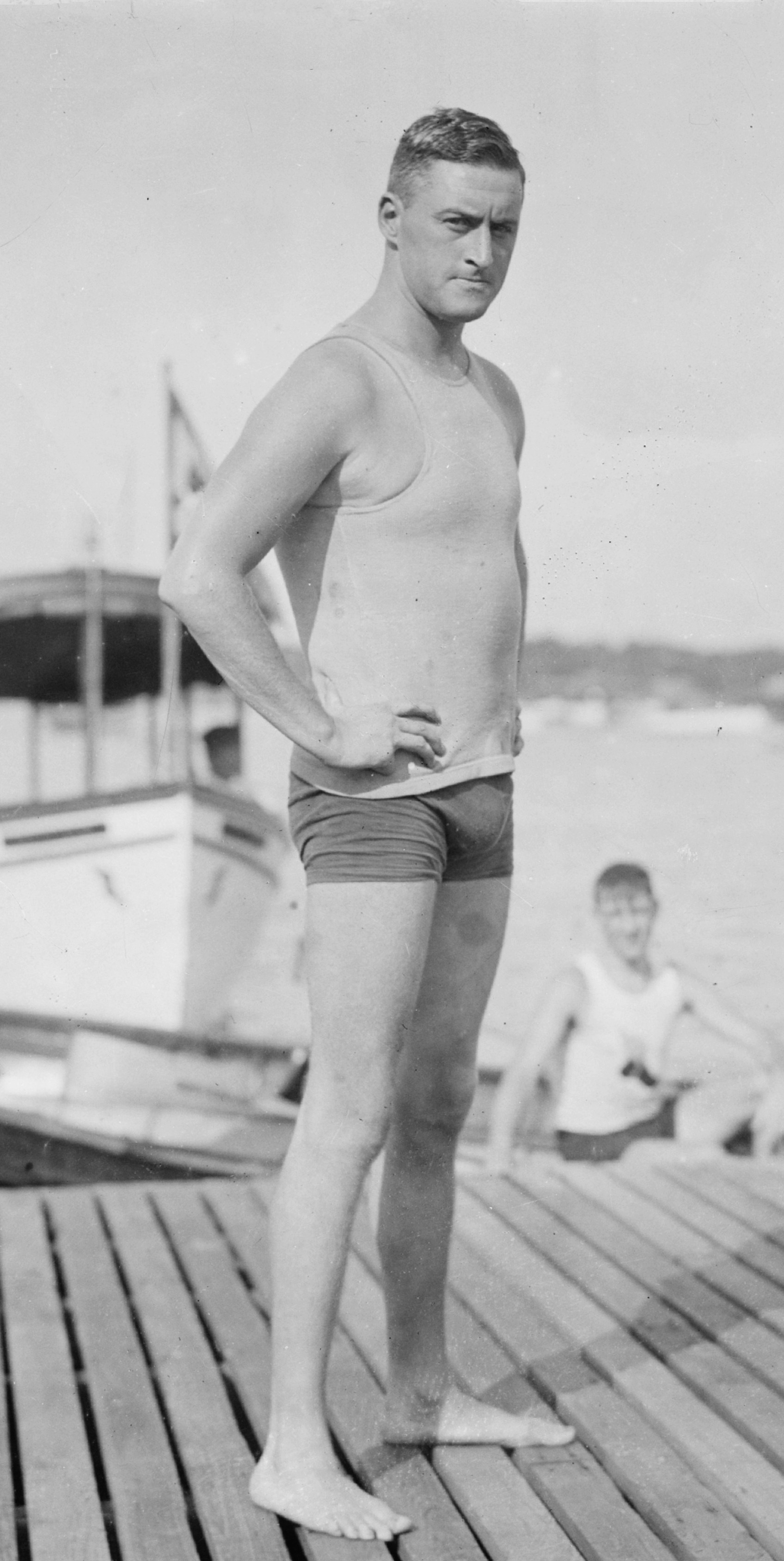 Leo Joseph "Budd" Goodwin (1883-1957), freestyle swimmer, diver, and water polo player who was a medalist in the 1908 Summer Olympics. (Source: Flickr Commons project, 2009) (extract from an original text)